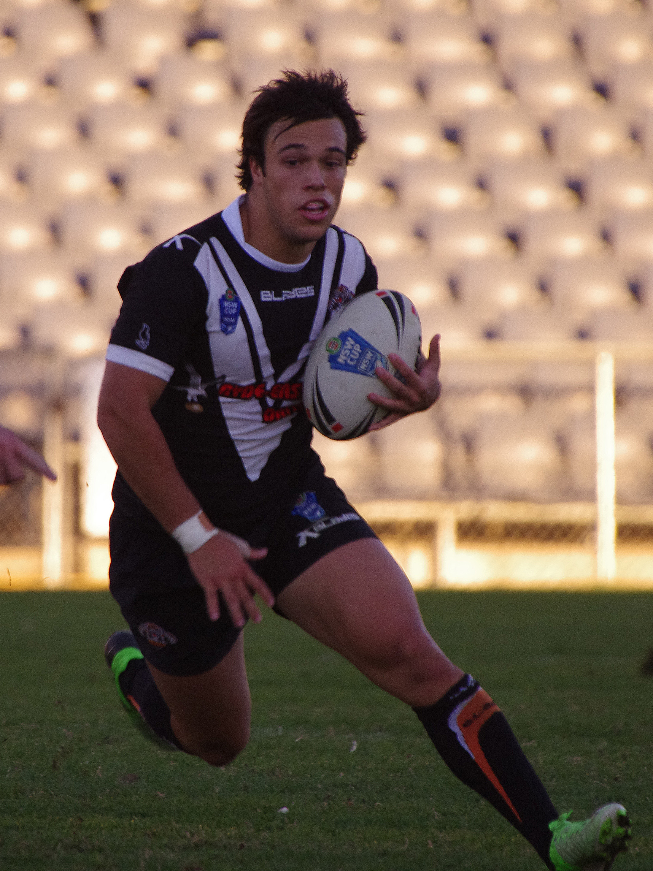 Luke Brooks